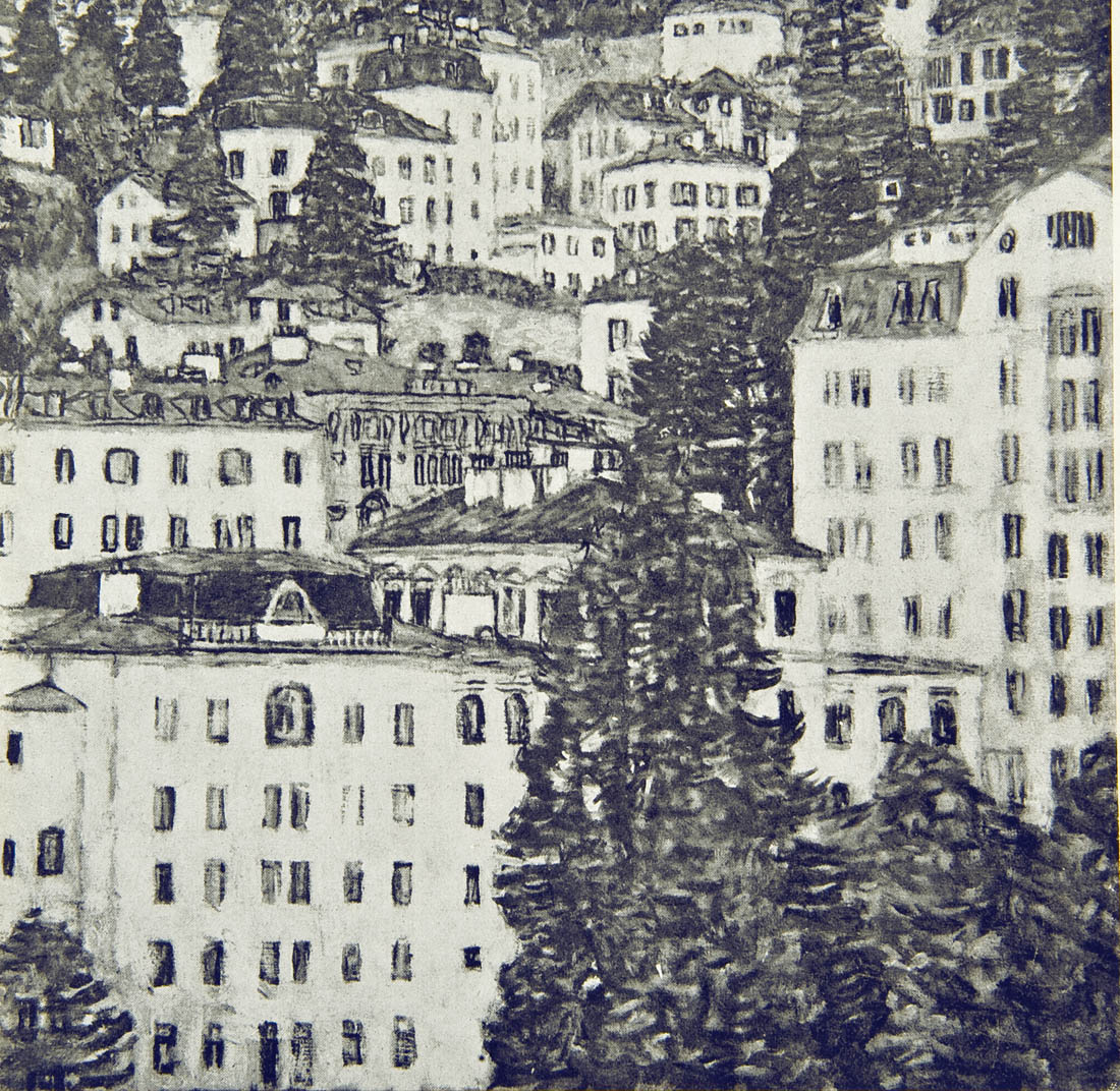 “Gastein”, by Gustav Klimt, 1917. Confiscated by the Nazis from the Jewish Lederer family. Burnt in Schloss Immendorf, Austria in 1945. The fire was set by retreating SS forces. - Dimensions: 70 x 70 cm - Oil on canvas